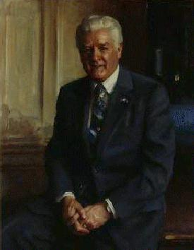 Peter Joseph Brennan Upload Source evrik 275x355 (11829 bytes) (Peter Joseph Brennan)